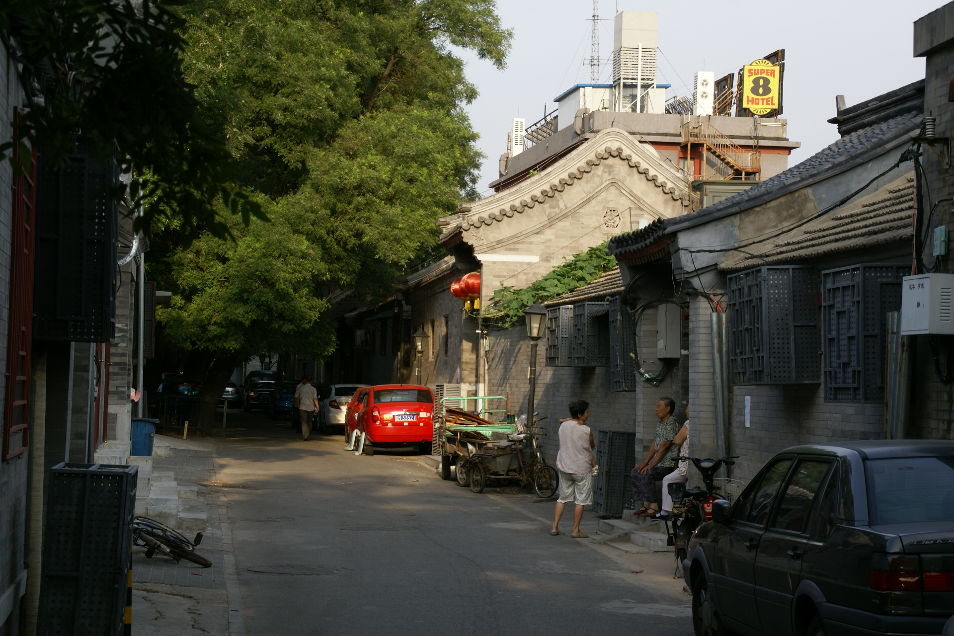 Qunli Hutong - Beijing, 17.8.2014